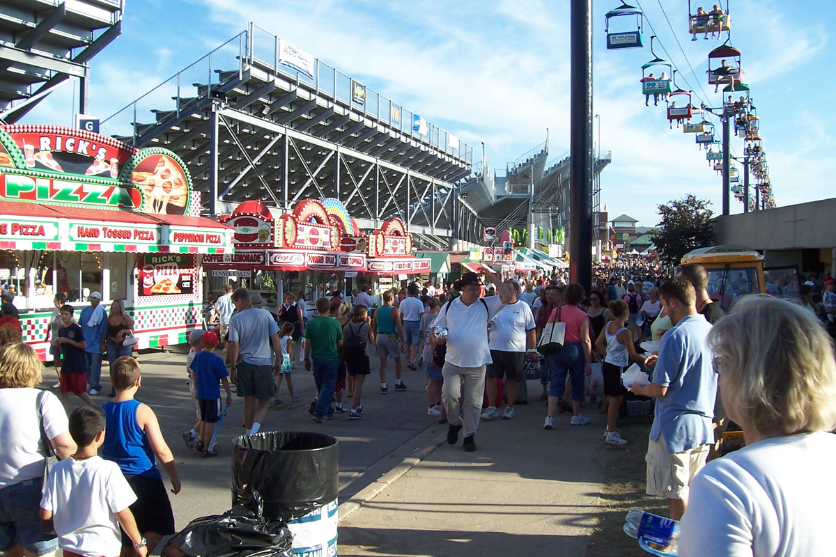 Copyright Â© 2005 Sulfur A view of the midway and Sky Glider at the Wisconsin State Fair, which is held annually in West Allis, Wisconsin.